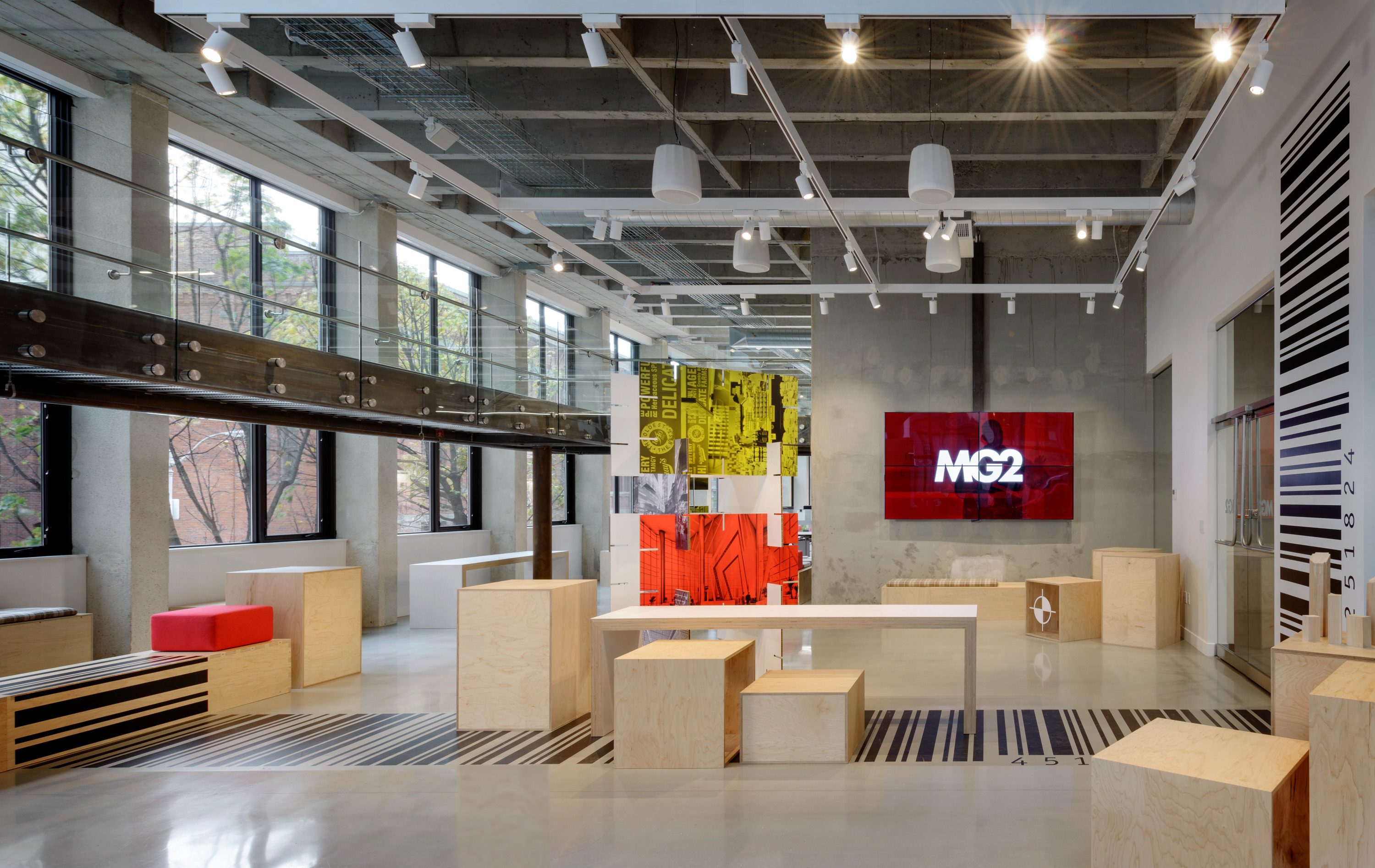 First floor exhibit space in MG2's Headquarters located on 2nd Ave. in Seattle, WA.